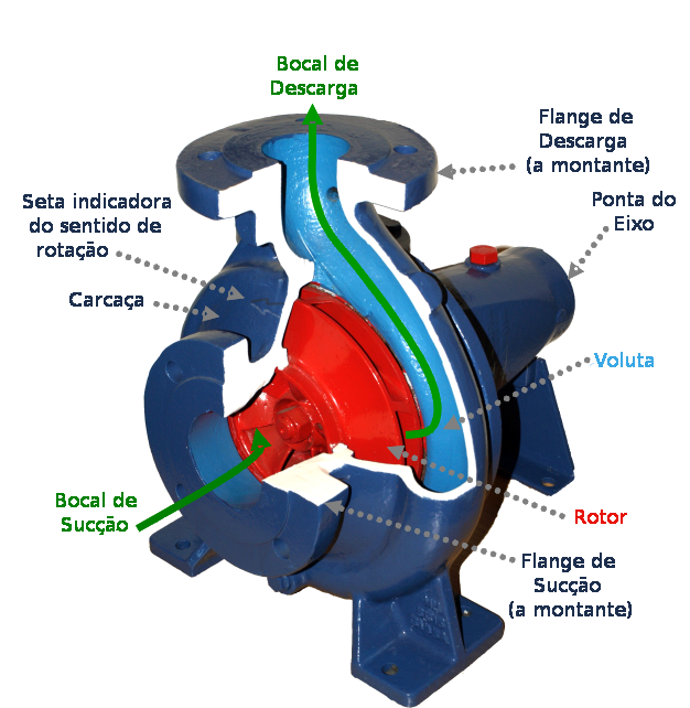 Parts of a centrifugal pump. Foto taken from a model found at Delmenhorst (GER) waterworks. Nomenclature added myself